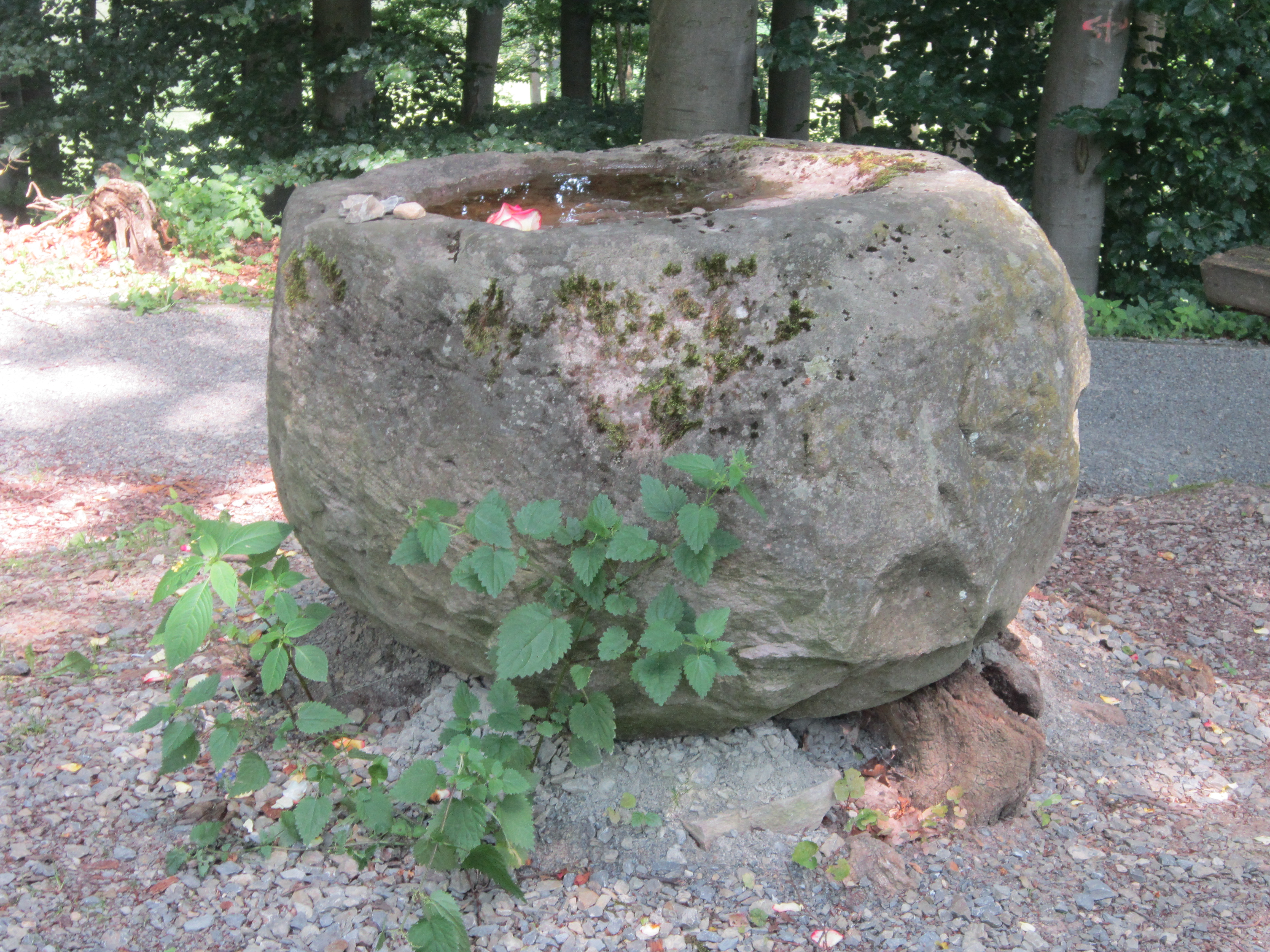 "Heidenopferstein" in the German spa town of Bad Kissingen in Lower Franconia (Bavaria). Address: Hohe Eiche 1